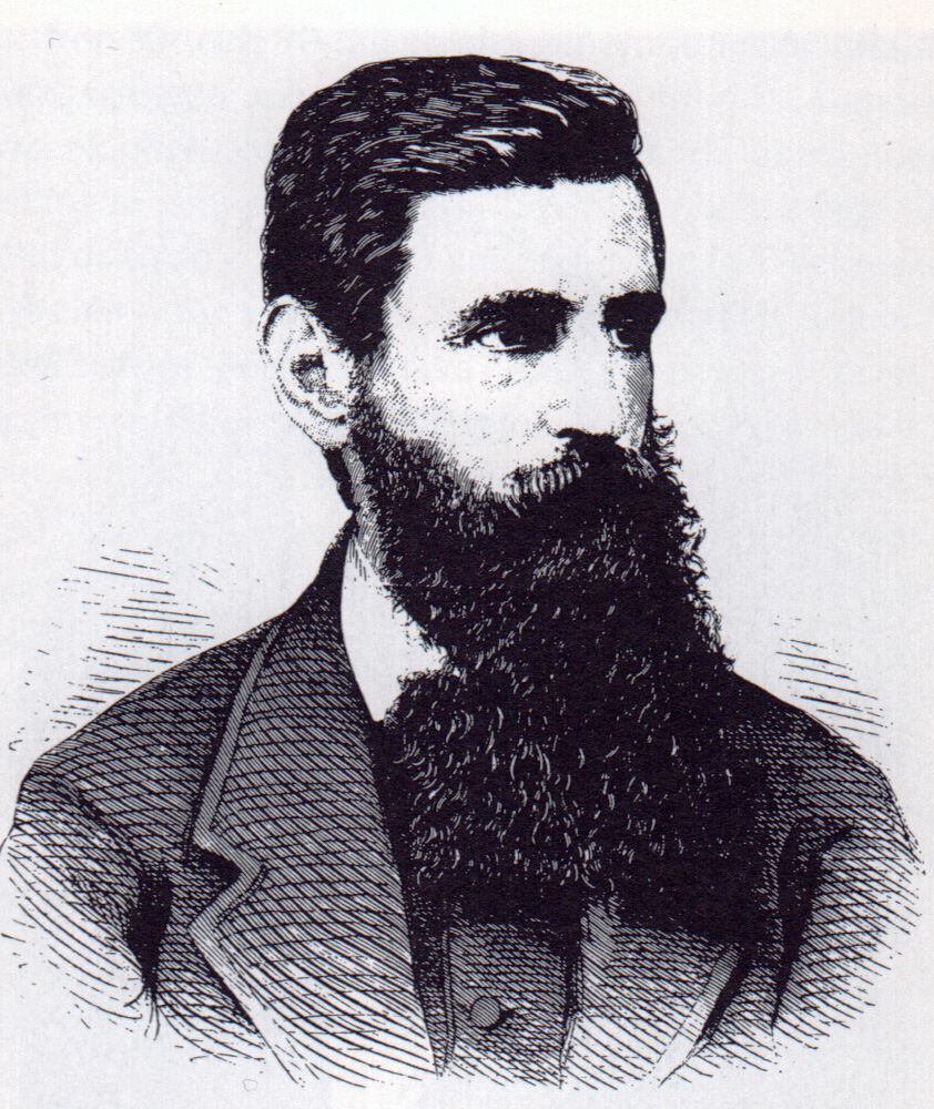 Edward Skill (1831-1873). Published in Ny illustrerad tidning 1873:20.